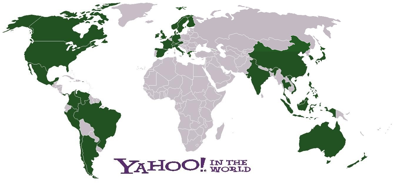 Map of the countries with a local version of Yahoo!